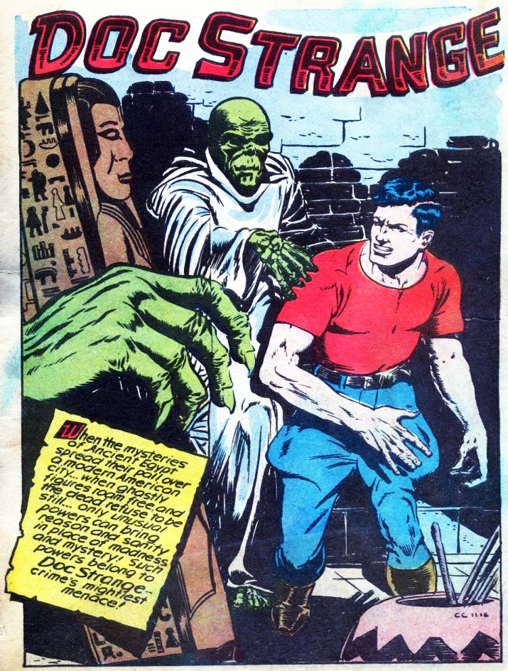 America's Best Comics #22, Page 3, June, 1947